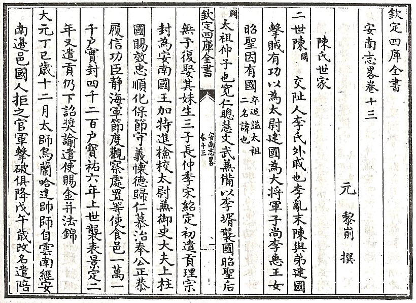 Annamese recordsTiếng Việt: An Nam chí lược